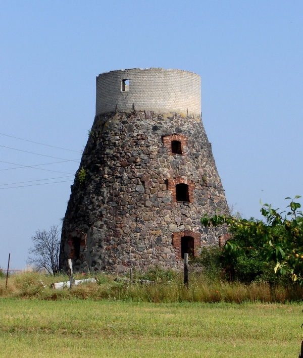 Former windmill in Möckern-Büden (Saxony-Anhalt)